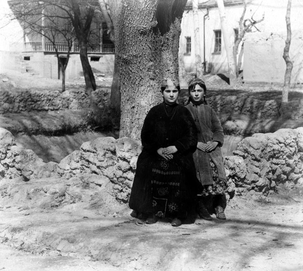 Photograph from Russia, created as part of work to document the Russian Empire from 1909 to 1915. Jewish girls in Samarkand.